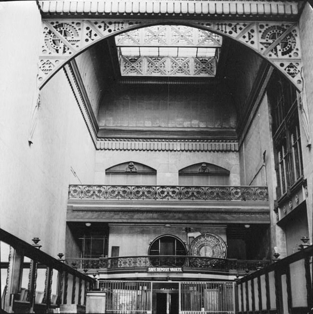 Interior of Provident Life & Trust Company Banking House, 409 Chestnut Street, Philadelphia, PA, looking north from main entrance.